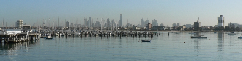 Melbourne skyline panorama from St Kilda Pier